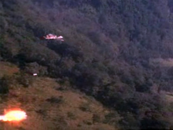 A U.S. Air Force Martin B-57B from the 13th Bombardment Squadron attacking a target in South Vietnam with napalm bombs in 1967.